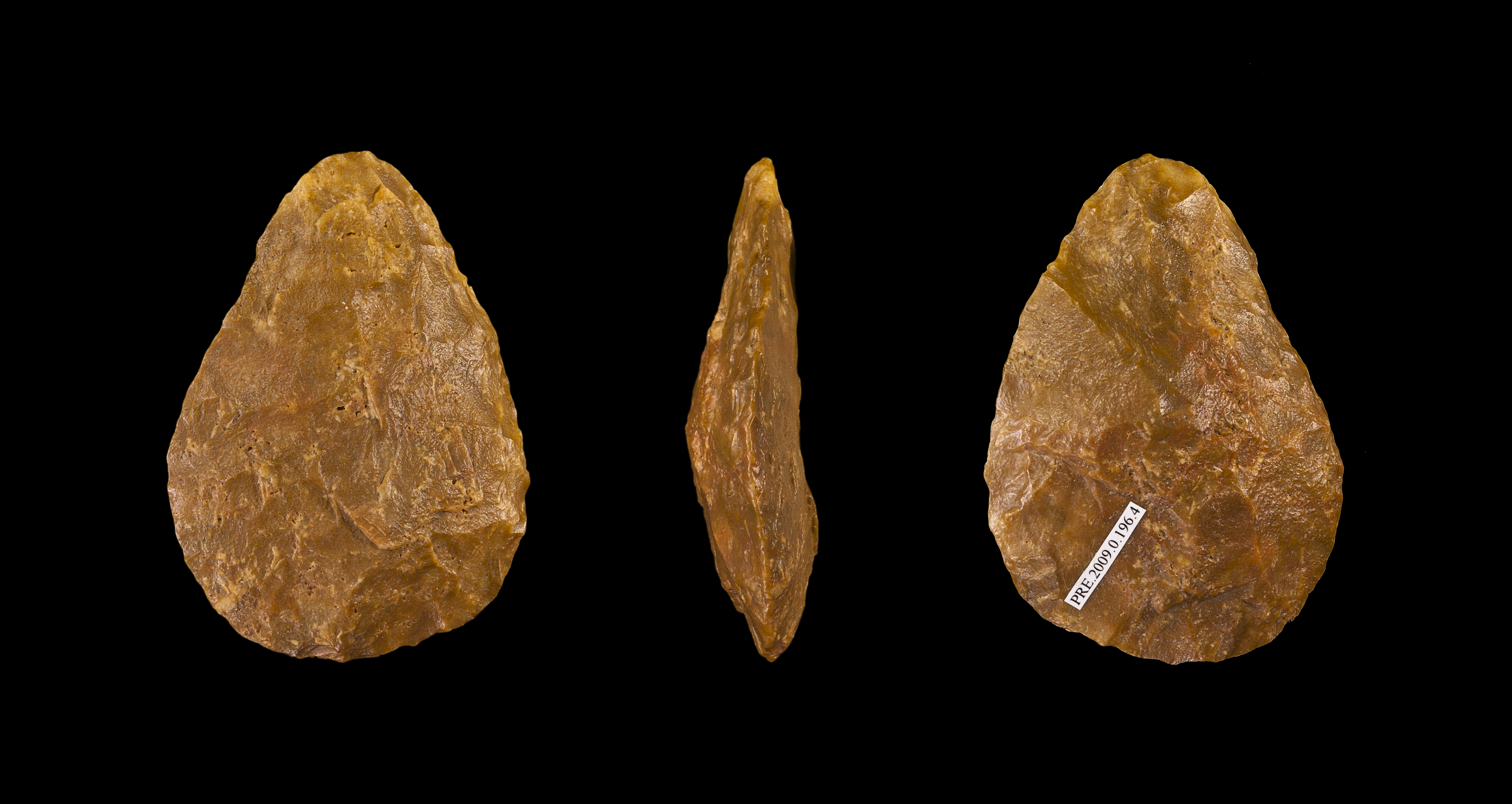 Amygdaloid biface Different views of the same specimen.